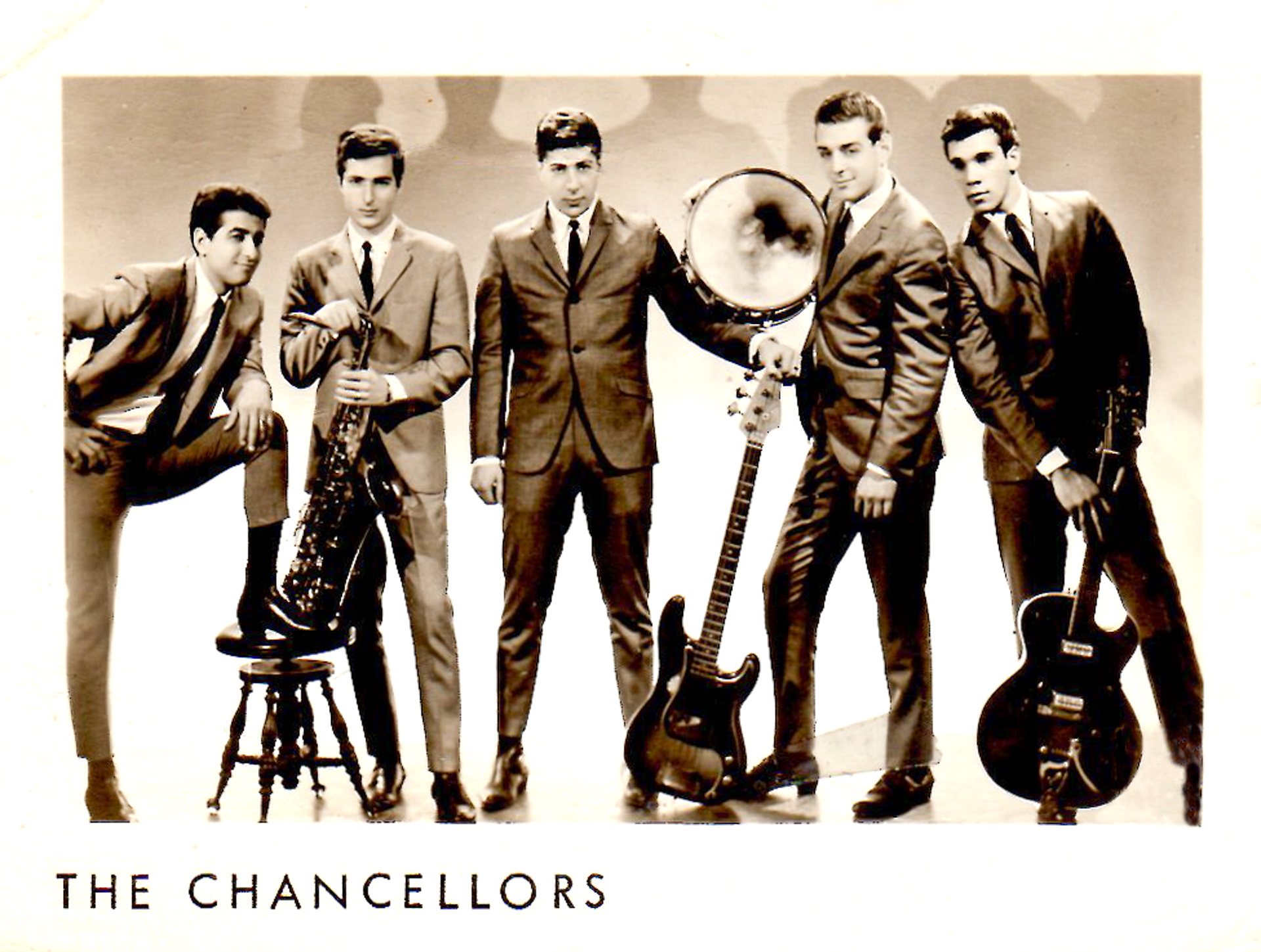 The Chancellors (l-r) Bijan Yakuboff, Don Grassini, Ronnie Salvani, Nick DiMinno, George Marino